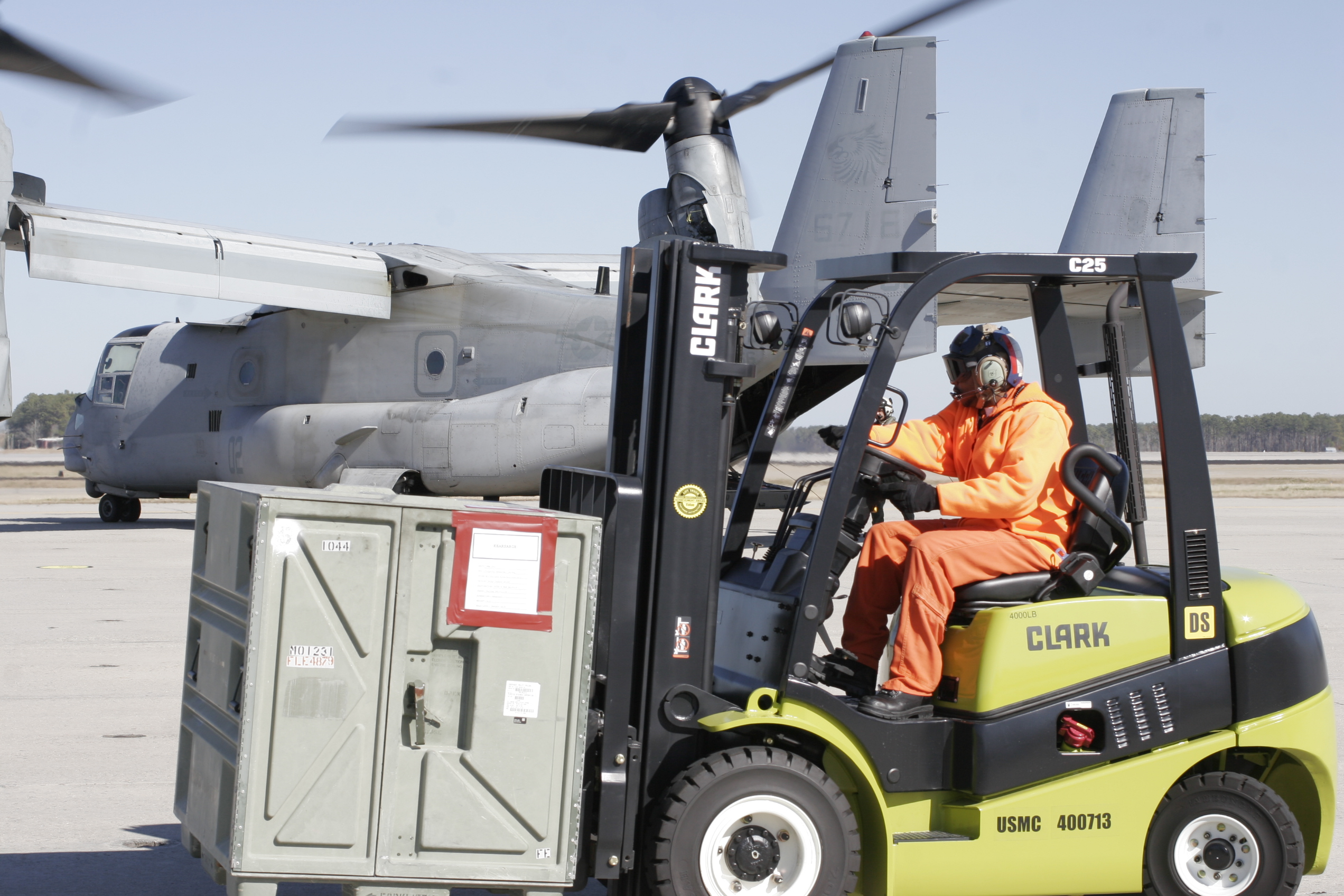 A member of the Marine Corps Air Station Cherry Point flight line personnel guides an MV-22 Osprey onto the air station’s flight line Jan. 31, 2012. Marines from Marine Attack Squadron 231 loaded supplies onto four Ospreys, en route to ships underway in Bold Alligator 2012, a large force exercise meant to enable the Navy-Marine Corps team to execute amphibious assault operations in a multi-national and joint service scenario-driven environment that has recently only been done on the West Coast.